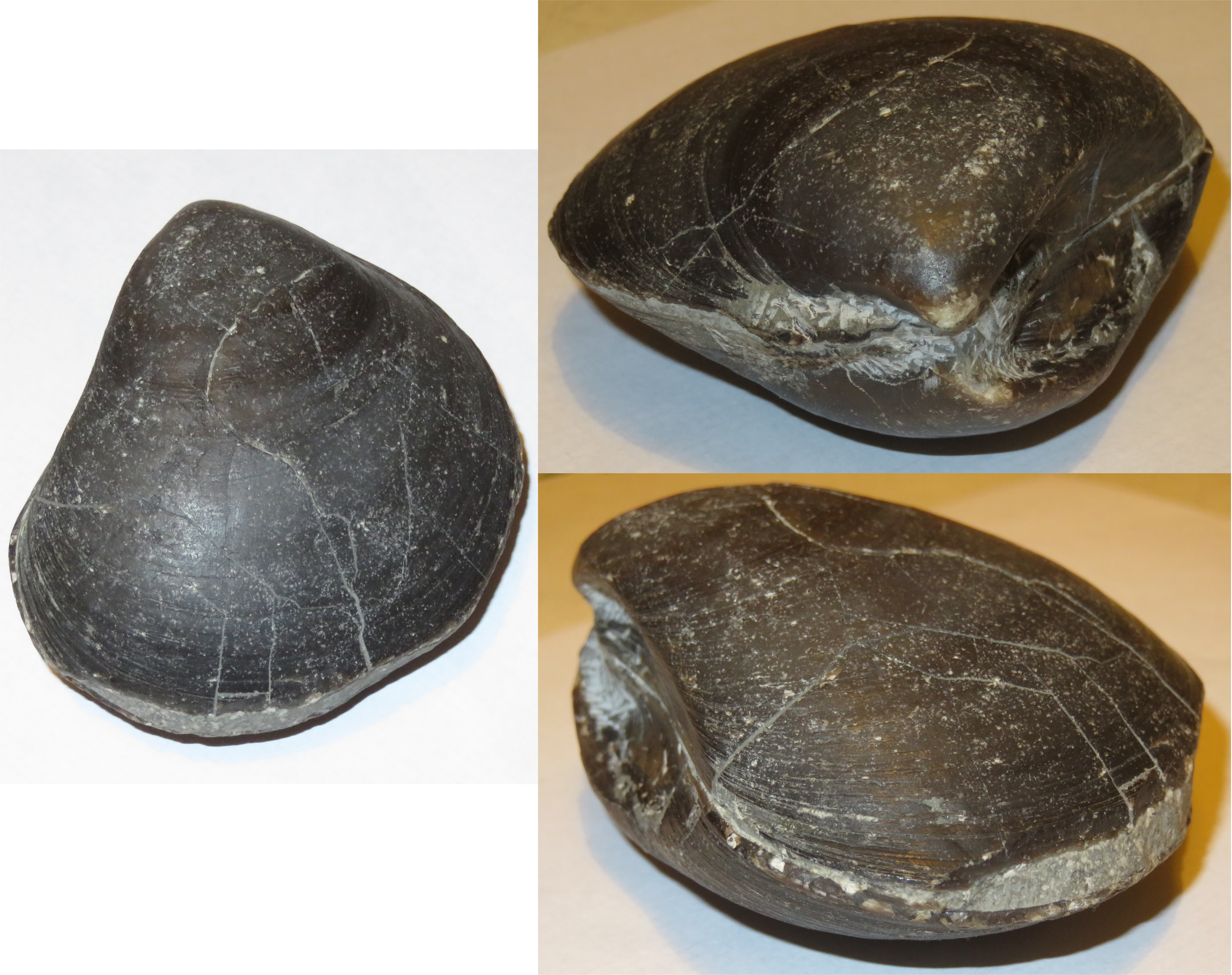 A well-preserved specimen of Plagiostoma giganteum found near Lavernock, South Wales